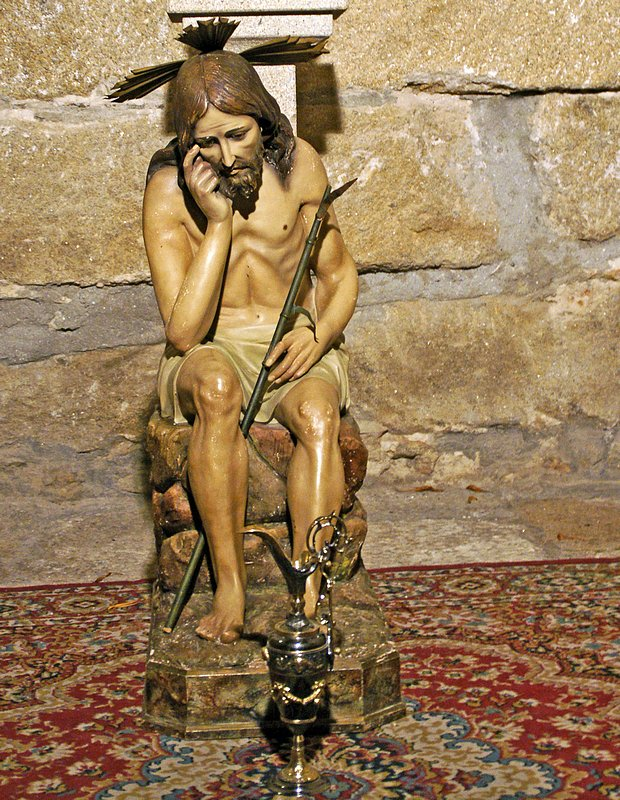 Cristo sentado o pensante de la iglesia de Pasarón de la Vera